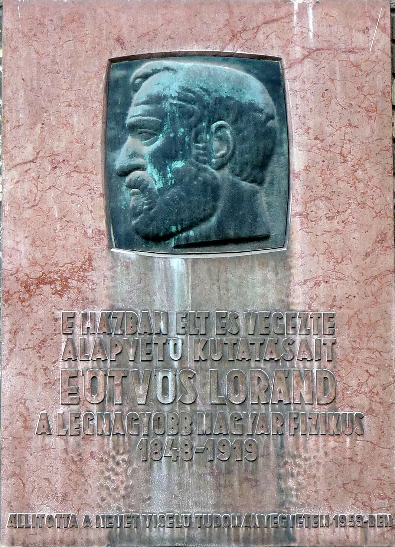 Commemorative plaque to Mr. Loránd Eötvös (1848-1919) Hungarian physicist. It is affixed to the building where he lived and worked. Author of the bronz relief is Mr. István Kákonyi. (Budapest, District VIII, Puskin Street Nr 5).